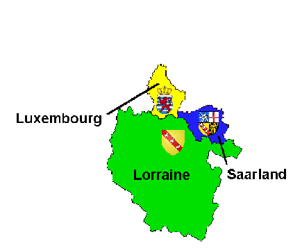 Picture of the original member states of SaarLorLux